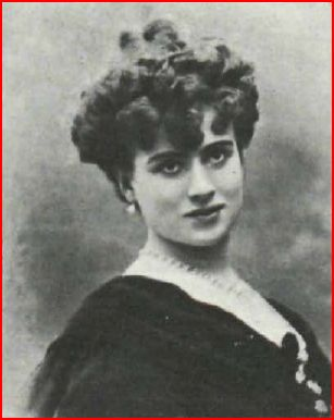 Giorgina Caprile, in "El arte del teatro" magazine of 1.1.1908